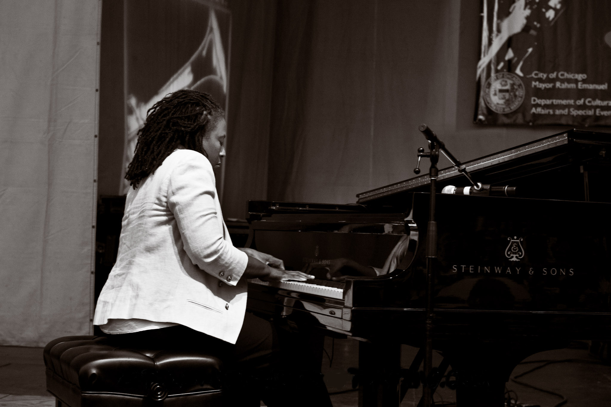 If you’ve been keeping up with your numerology, you know that Trio 3 is a longstanding collective threesome comprised of bona fide greats who breathe jazz history through every note. Bassist Reggie Workman was a member of John Coltrane’s legendary Live at the Village Vanguard quartet. Drummer Andrew Cyrille helped rewrite jazz with the Cecil Taylor Unit. Slashing saxophonist and flutist Oliver Lake co-founded the Black Artist Group, a St. Louis counterpart to Chicago’s Association for the Advancement of Creative Musicians, and is a charter member of the World Saxophone Quartet. And then there are their individual endeavors, which span pre-swing, bebop and free jazz, rap, dance and world music. Cyrille’s solo drum performances and duets with traps genius Milford Graves dared go where no drummer had gone before. Lake, a prolific composer in new music as well as jazz, broke new ground with his roots-reggae band Jumpin’ Up and his Steel Quartet. Workman’s remarkable African-American Legacy Project features a 20-piece orchestra and 18-member chorus. If Trio 3′s range isn’t remarkable enough as it is, the addition of pianist Geri Allen puts it over the top. Firmly established in the pantheon of living pianists, she has made one major statement after another in recent times with her Mary Lou Williams tributes, solo recording and Timeline band album. Allen, whose latest recording with Trio 3 is the live Celebrating Mary Lou Williams, is another artist who views modern jazz and its earlier styles on the same continuum. Quartet 4, if you will, may be the best case of addition by addition you’ll ever hear. SATURDAY, SEPTEMBER 3 Petrillo Music Shell Trio 3 + Geri Allen 6:00 – 6:55 pm